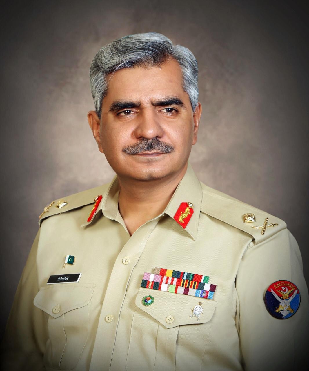 DG ISPR Babar Iftikhar